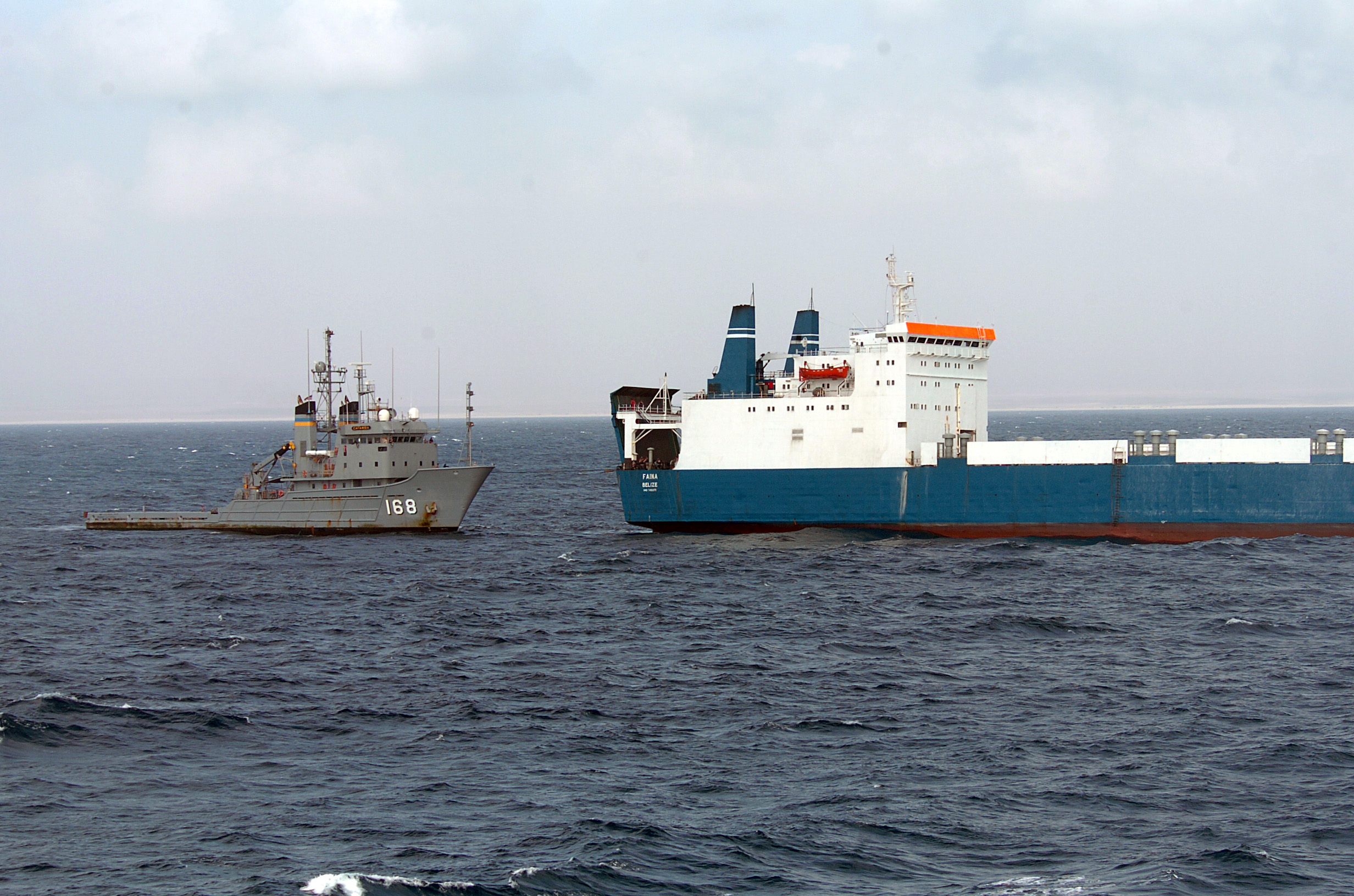 The U.S. Navy fleet ocean tug USNS Catawba (T-ATF 168) provides fuel and fresh water to Motor Vessel Faina following its release by Somali pirates on February 5th after holding it for more than four months. The U.S. Navy has remained within visual range of the ship and maintained a 24-hour, 7-days a week presence since it was captured.